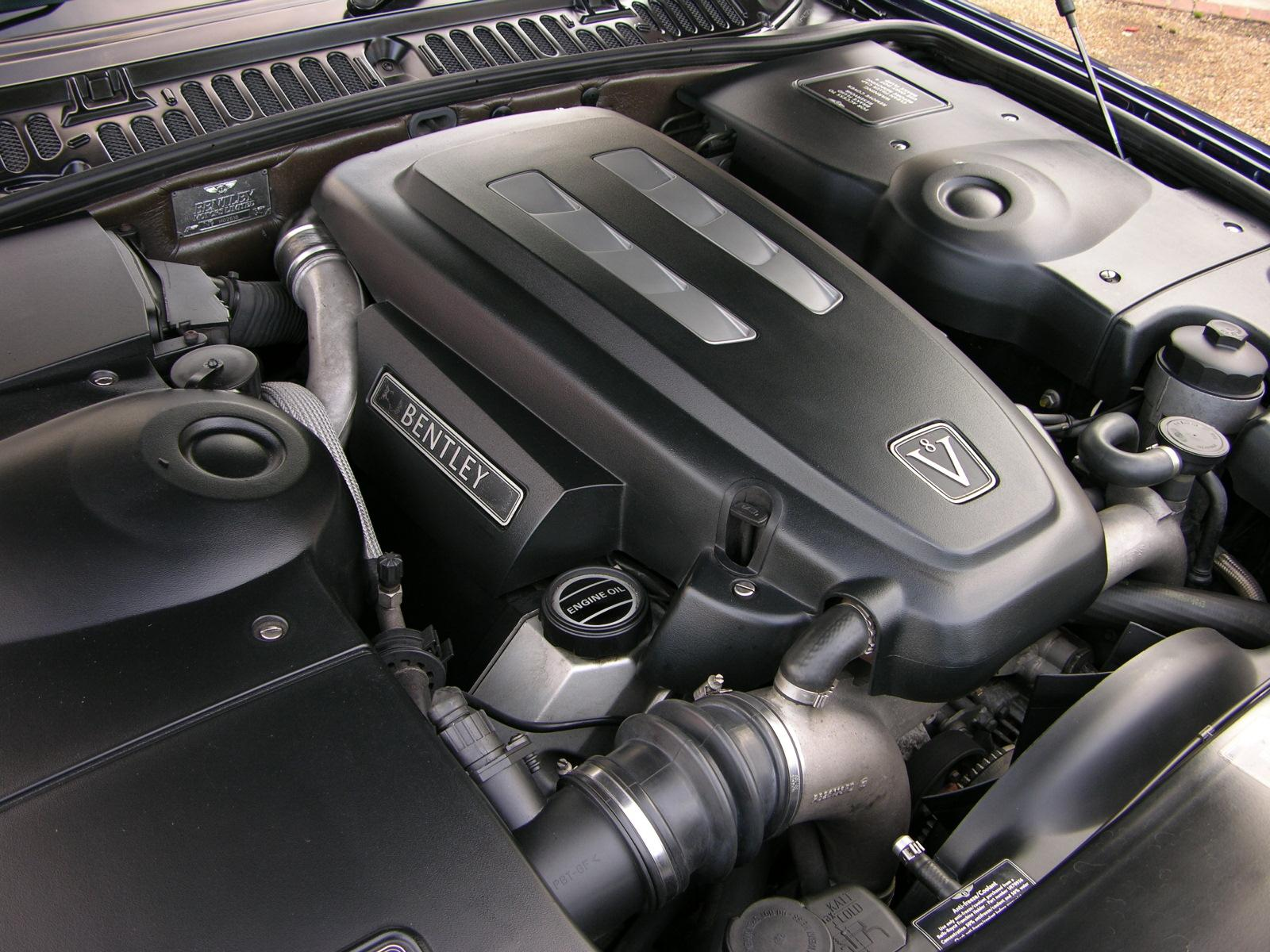 1999 Bentley Arnage V8